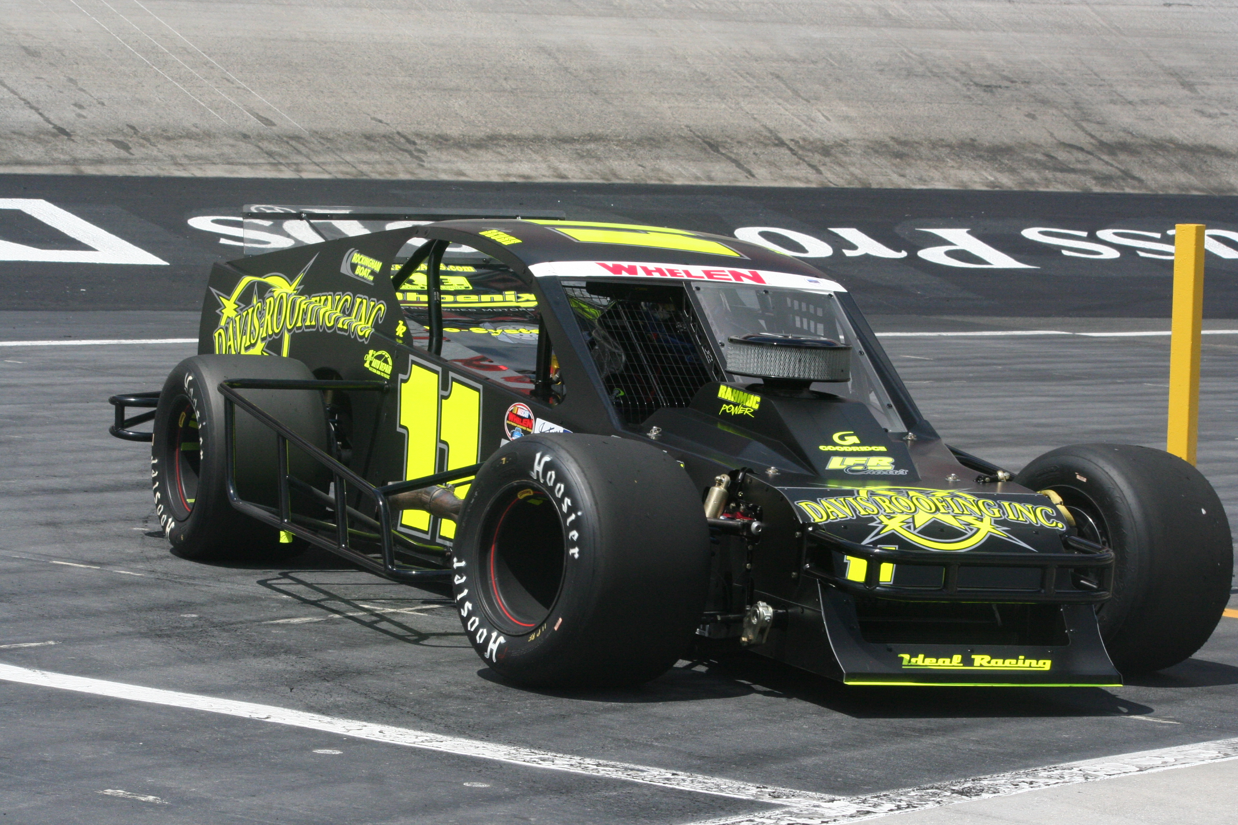 Andy Seuss